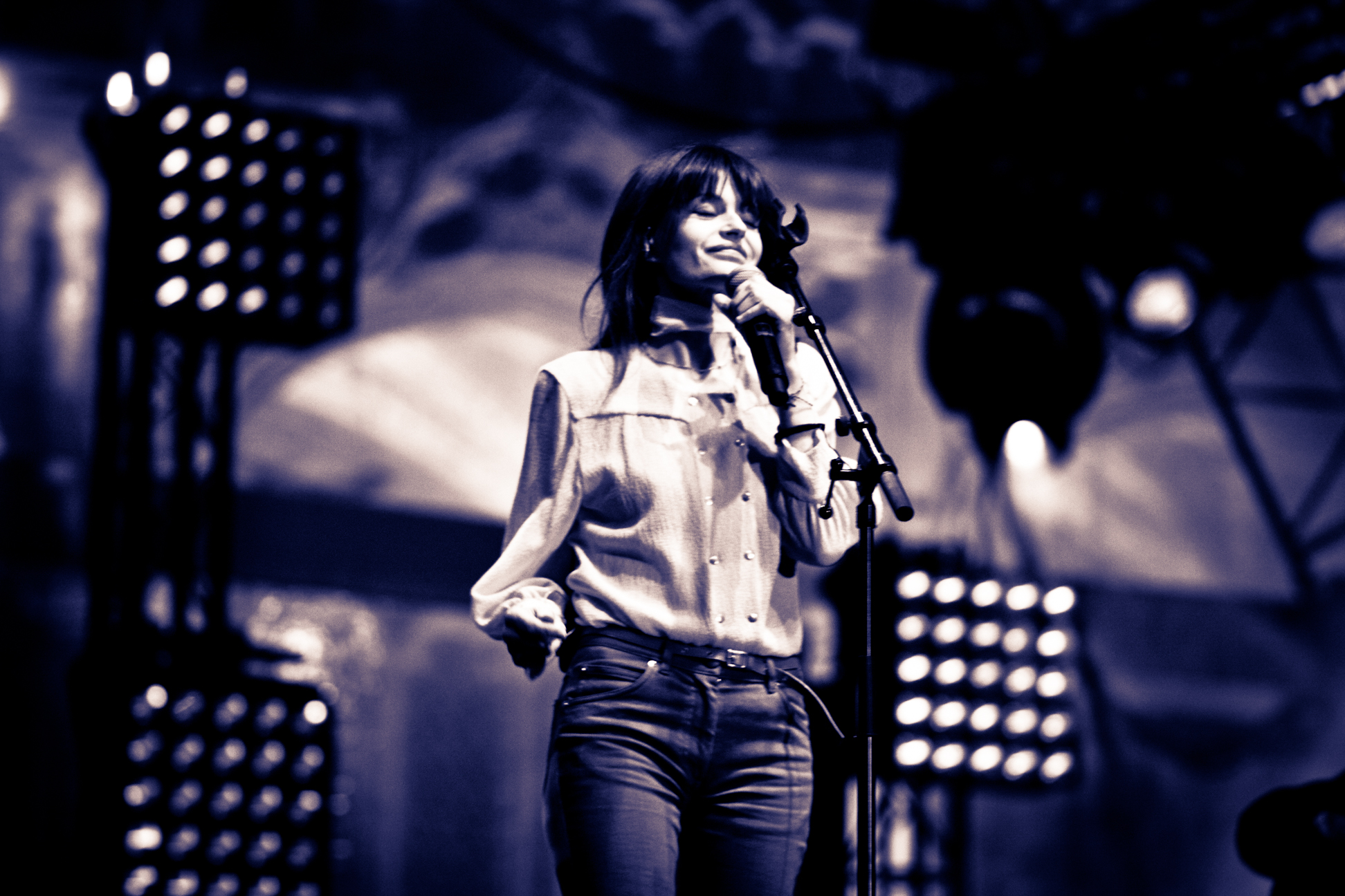 Follow me on facebook Twitter : @didyPhotography All the photographies I've made are now under CC0 (Creative Commons Zero) CC0 - learn more To the extent possible under law, Eddy BERTHIER has waived all copyright and related or neighboring rights to Axelle Red @ Fête de la Fédération Wallonie-Bruxelles. This work is published from: France.